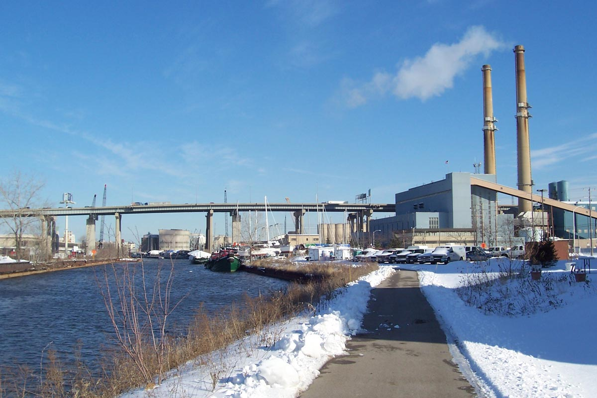 Copyright © 2006 Sulfur The Hank Aaron State Trail as it runs through the Menomonee Valley in Milwaukee, Wisconsin.